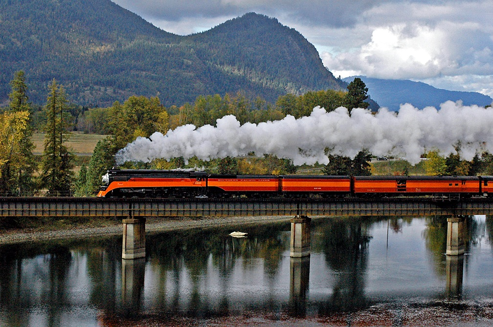 Southern Pacific 4449 hauling an excursion train painted in SP "Daylight" colors across the Clark Fork River, just south of Lake Pend Oreille, in Idaho, en route to Montana. October 2004.